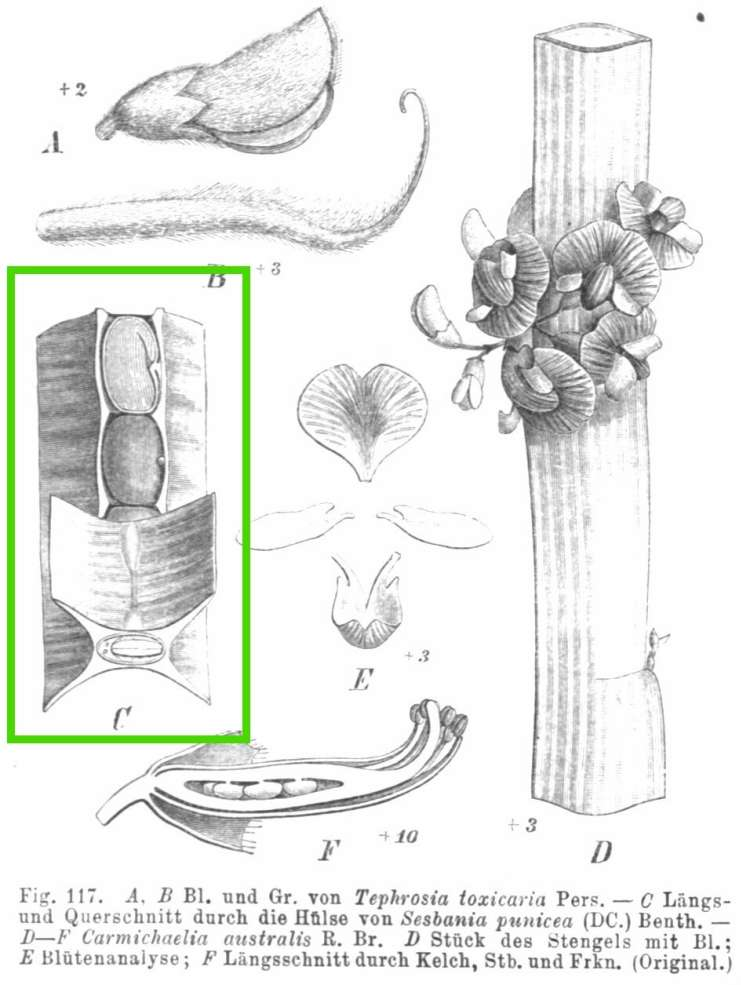 Original sketch of Sesbania punicea in 1891.